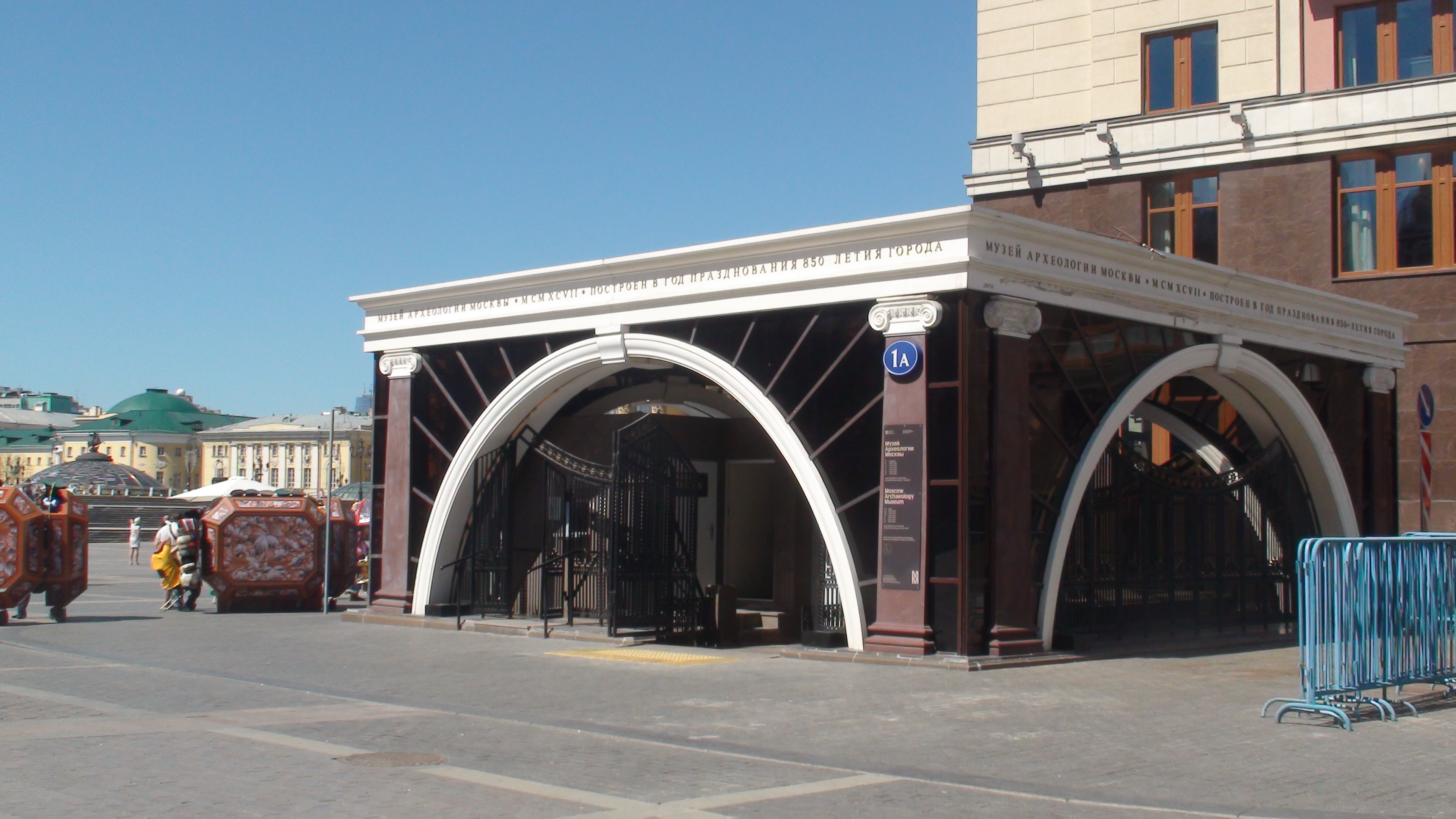 Музей археологии Москвы на пл. революции